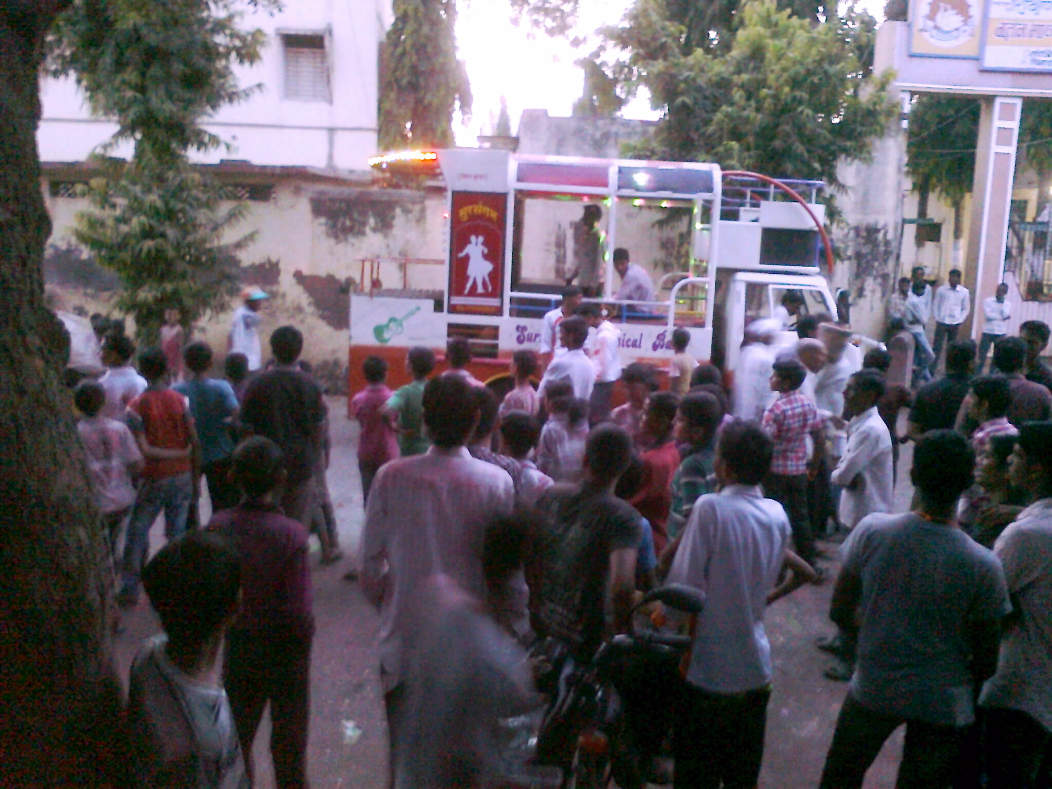 Celebratory procession on streets after BJP's victory in 2014 Maharashtra assembly elections at Chinawal village, India.